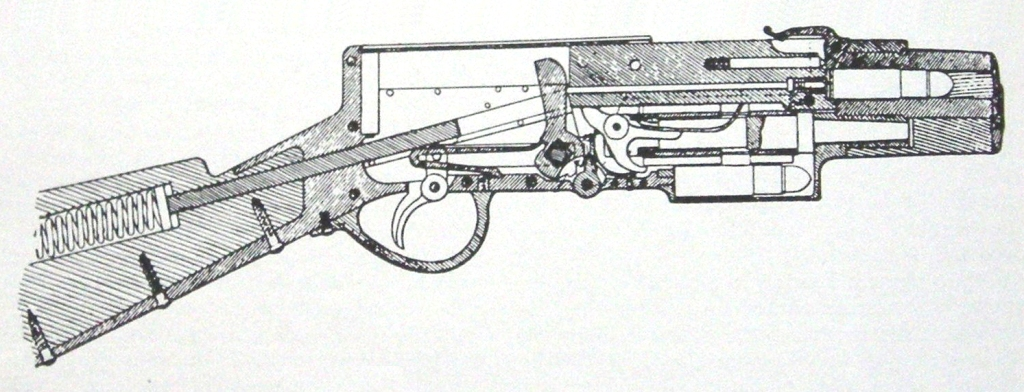 Maxim 1st Patent